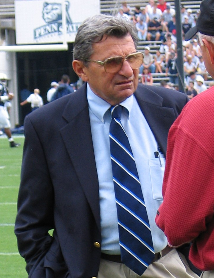 Joe Paterno, from field level prior to the start of Penn State vs. Temple, on August 30, 2003. Taken by myself using my own equipment.